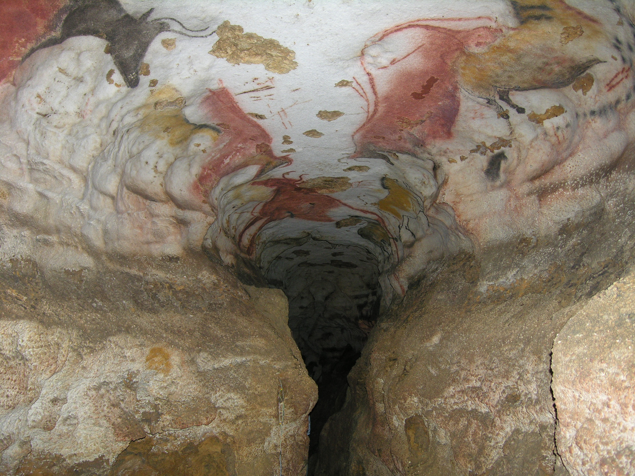 Lascaux cave. Prehistoric Sites and Decorated Caves of the Vézère Valley (France)